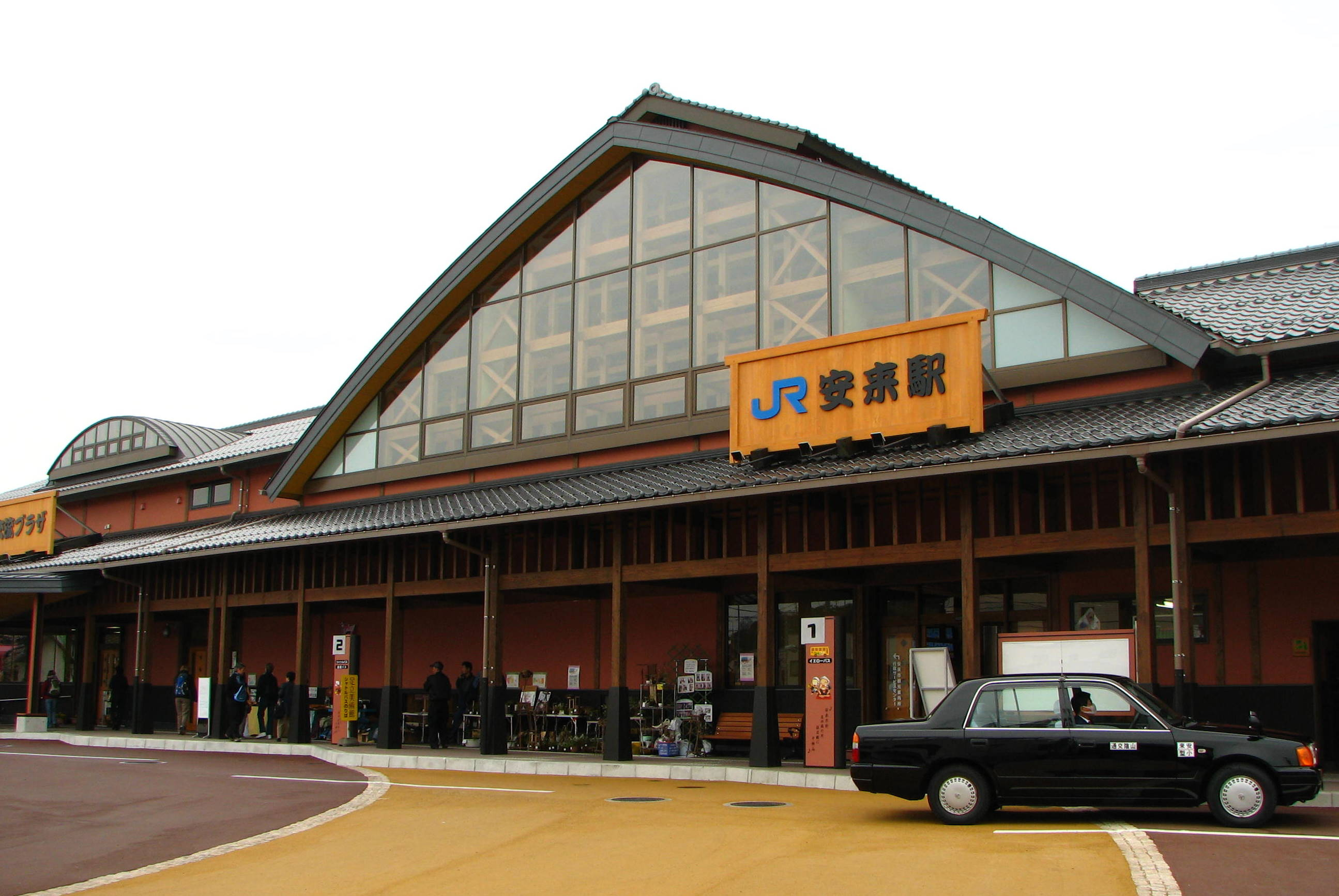 Yasugi Station on the Sanin Main Line in Shimane Prefecture, Japan